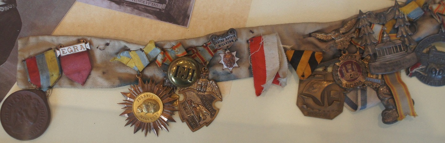 Schlaraffia, Bohemian "Willkomm" signs (& Linz), collection of Johann Zdiarsky